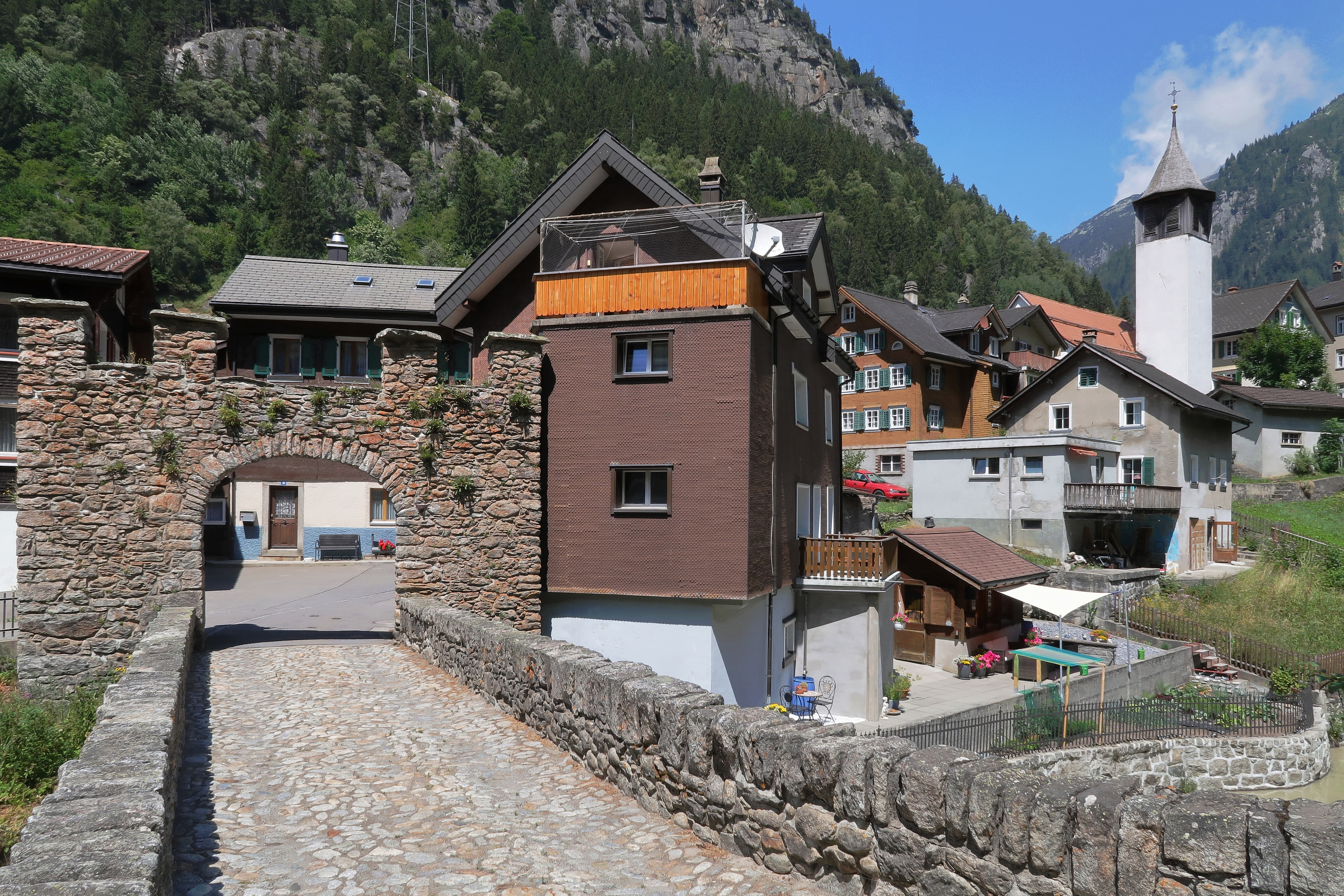 The historic toll bridge from 1556 and the gate. Until 1830, a toll was charged here. It is the last witness from the time of the mule tracks. Switzerland, July 11, 2018.